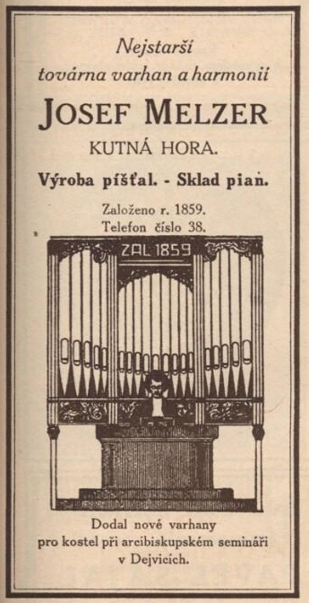 Josef Melzer, publicity, 1927